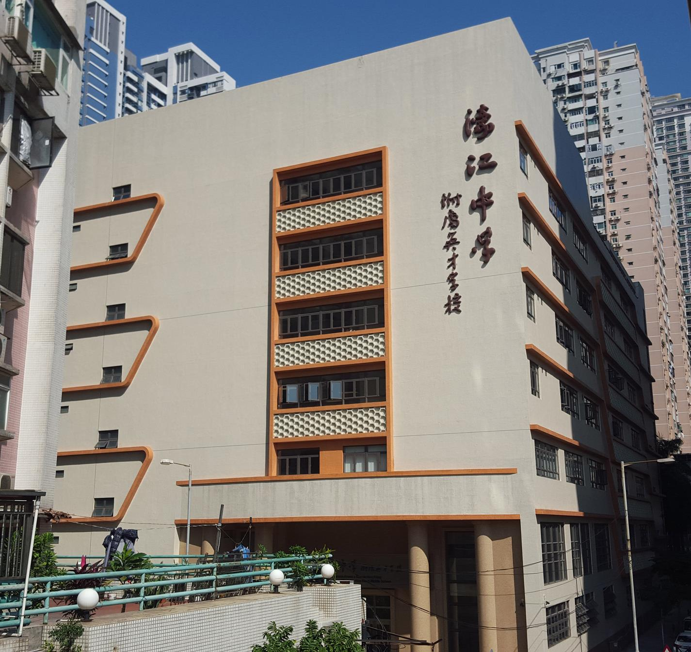 Hou Kong Middle School